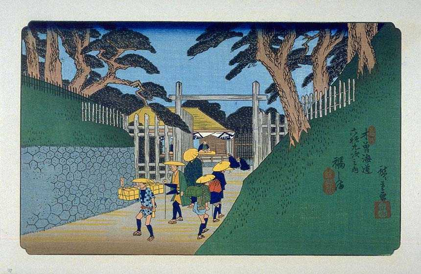 Fukushima on the Kisokaido, ukiyo-e prints by Hiroshige